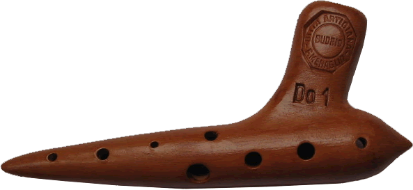 Ocarina di Concerto - A beautiful ocarina made of clay with 10 fingerholes and one for the outgoing air. I removed the background with CorelPhotopaint9.